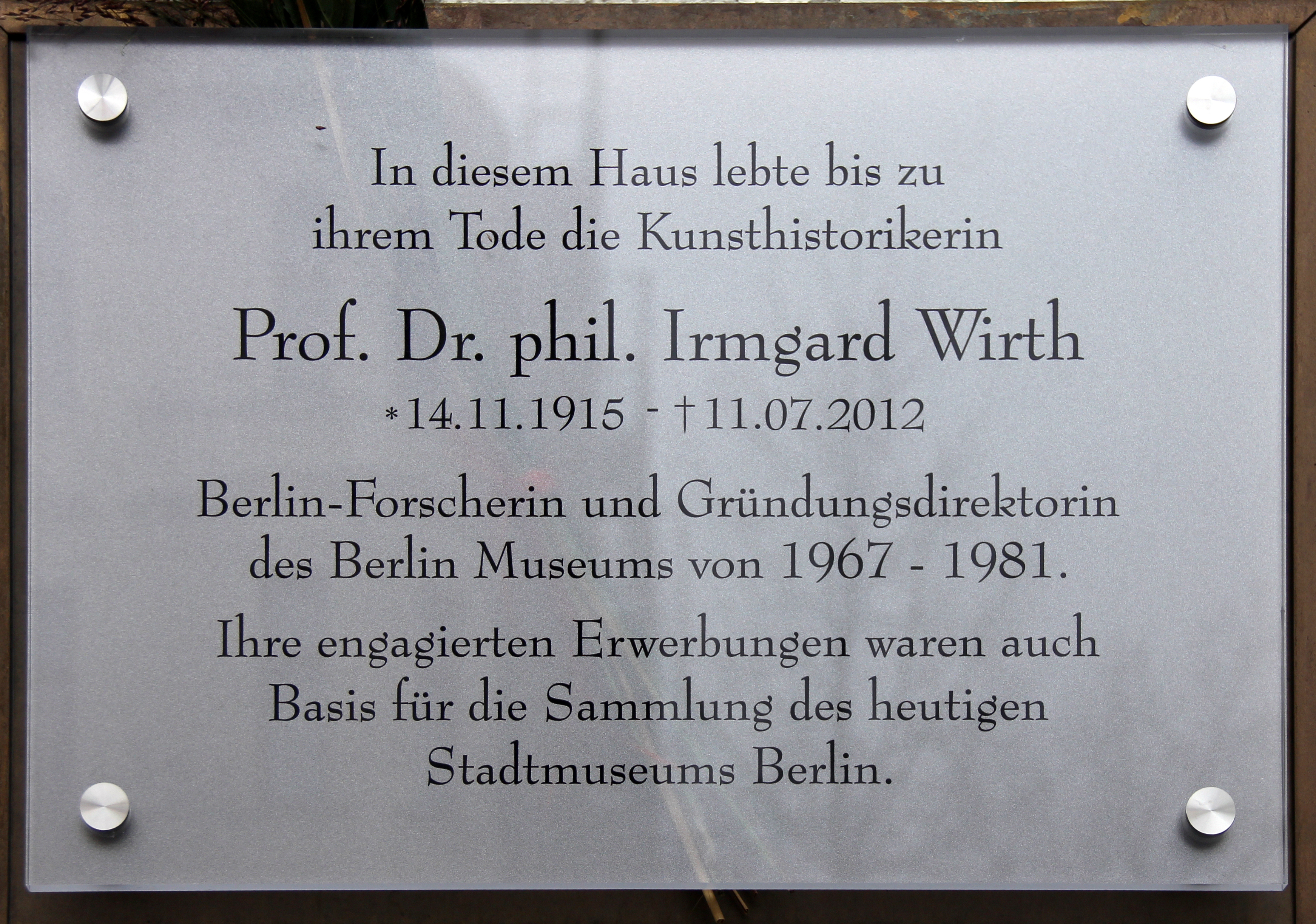 Memorial plaque, Irmgard Wirth, Knesebeckstraße 68-69, Berlin-Charlottenburg, Germany